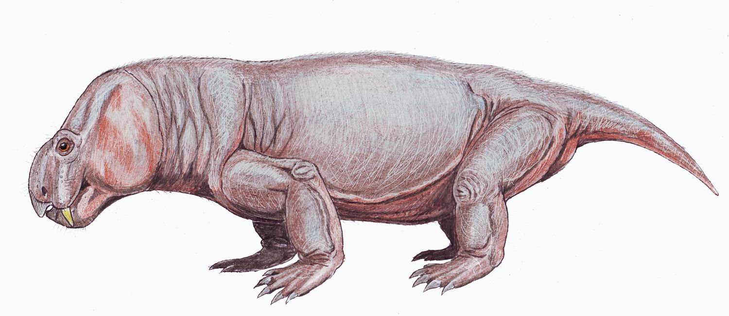 Vivaxosaurus (previously Dicynodon) trautsholdi